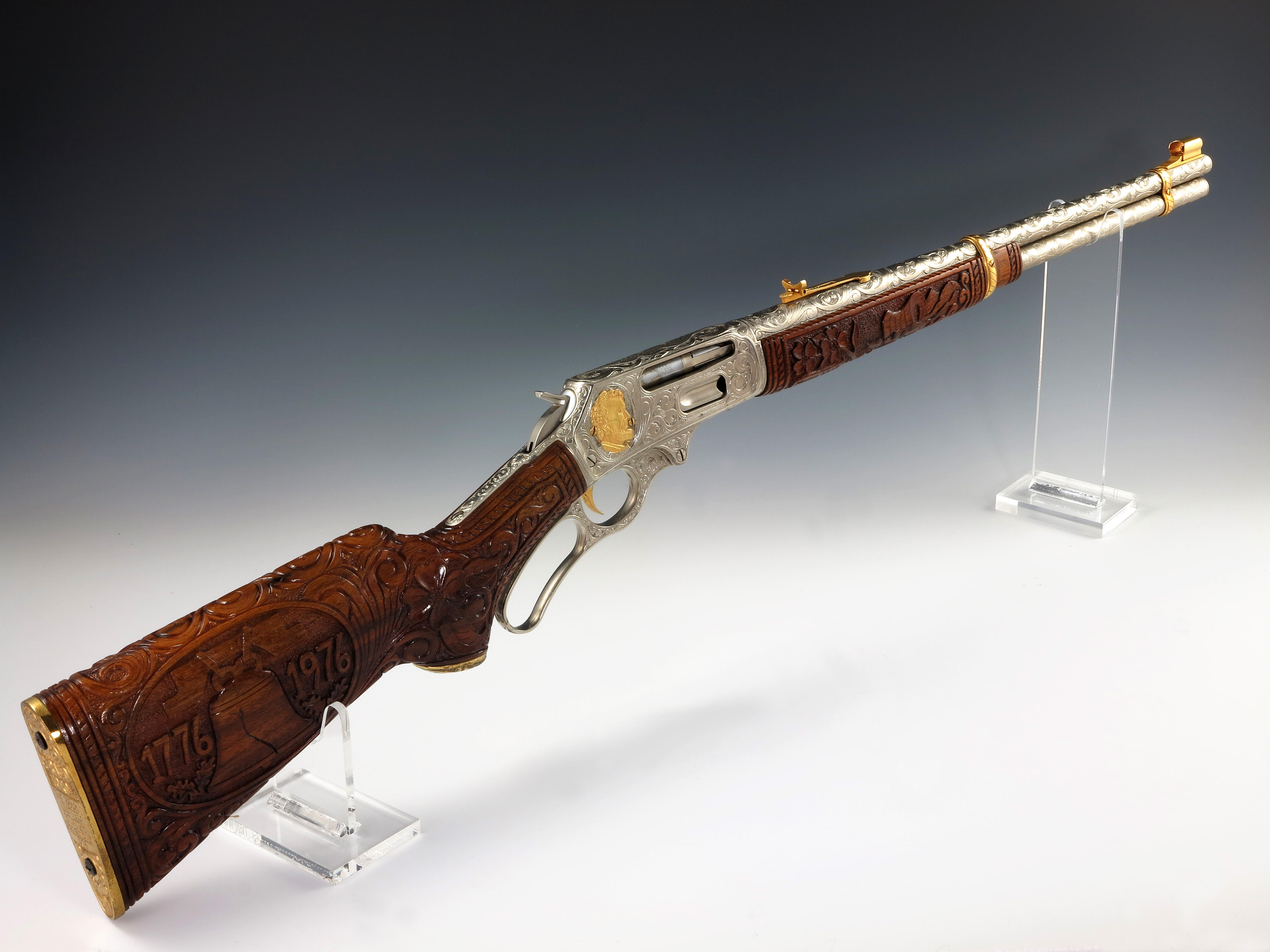 The 30-30 Cal. Marlin rifle is engraved with scenes from American history commemorating America’s Bicentennial. The engravings include scroll work and dogwood blossoms over most of the steel components. The butt of the gun is engraved with “Gerald / Ford / The 38th / United / States / President." - Engraving done by Fredrick Dale Henderson.